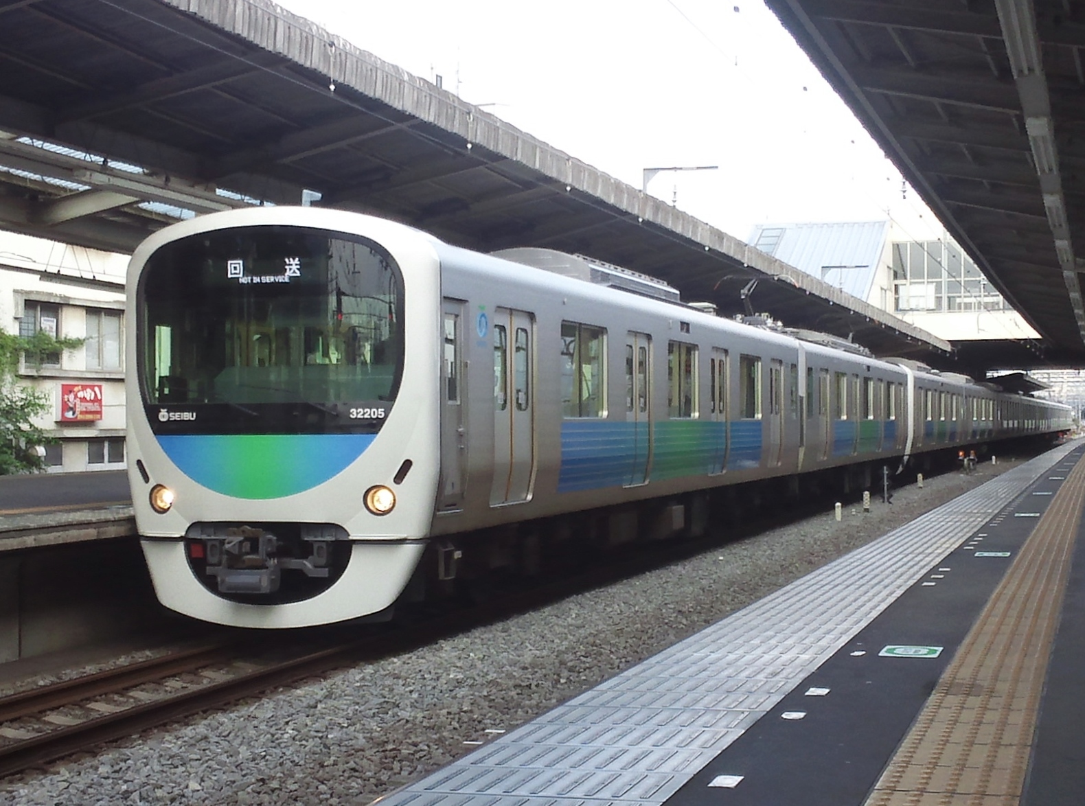 Seibu 30000 series 2-car EMU set 32105 together with an 8-car 30000 series EMU set at Shin-Tokorozawa Station on the Seibu Shinjuku Line